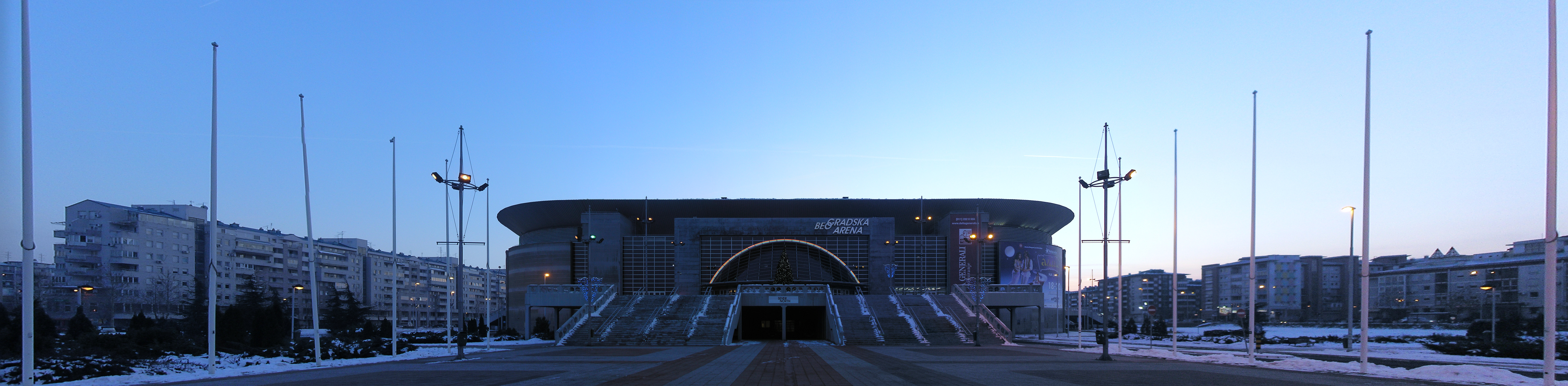 Look from the NNE direction towards Belgrade Arena.